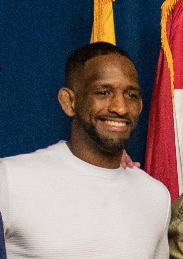 Neil Magny visiting service members stationed on Joint Base Myer-Henderson Hall at Rosenthal Theater on Joint Base Myer-Henderson Hall, Virginia, December 5, 2019